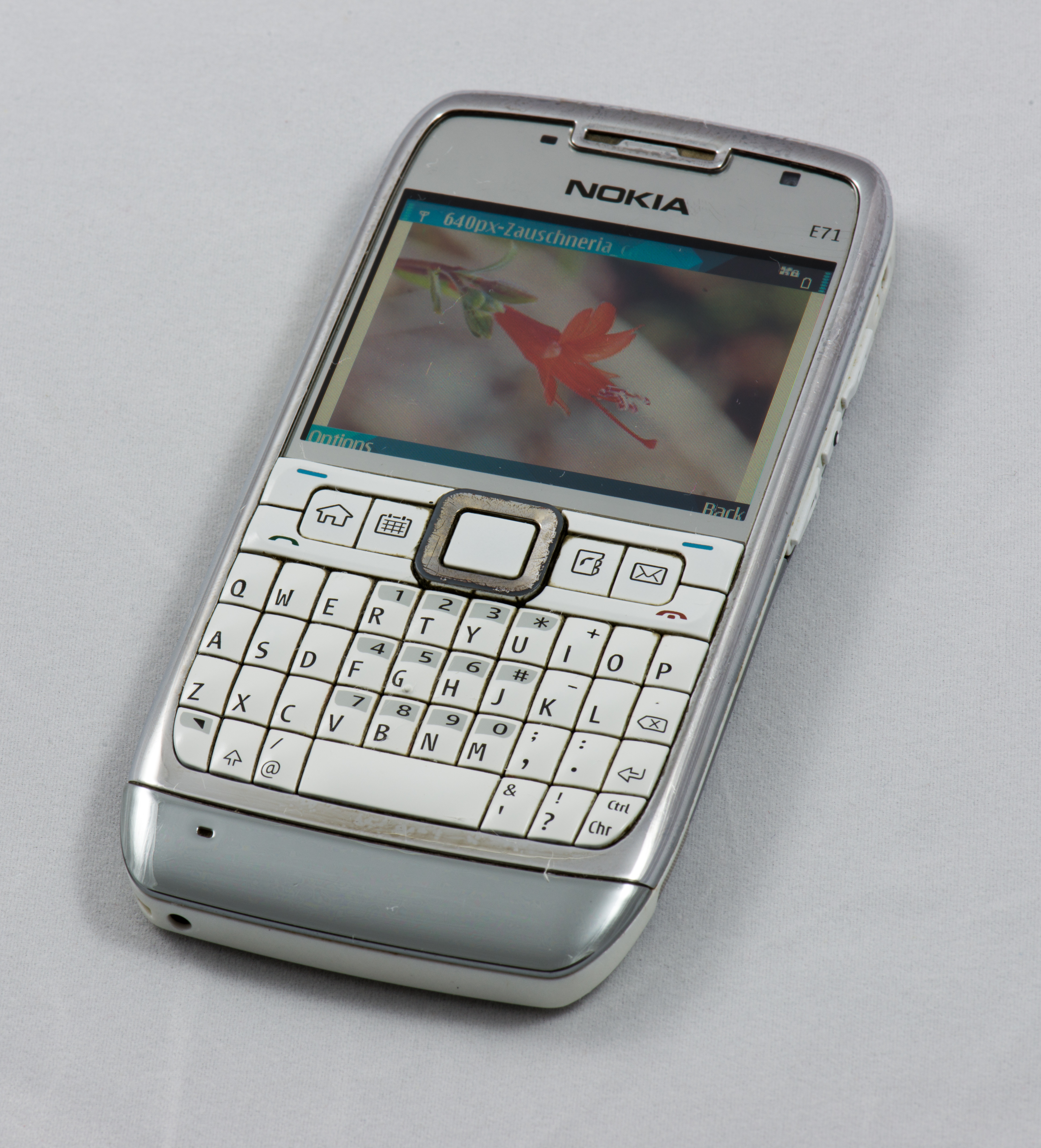 Purchased in December 2010 and showing some degradation. Image on screen is another CC0 photo by me (File:Zauschneria_californica_flower_closeup.jpg) in the standard Nokia image viewing application.